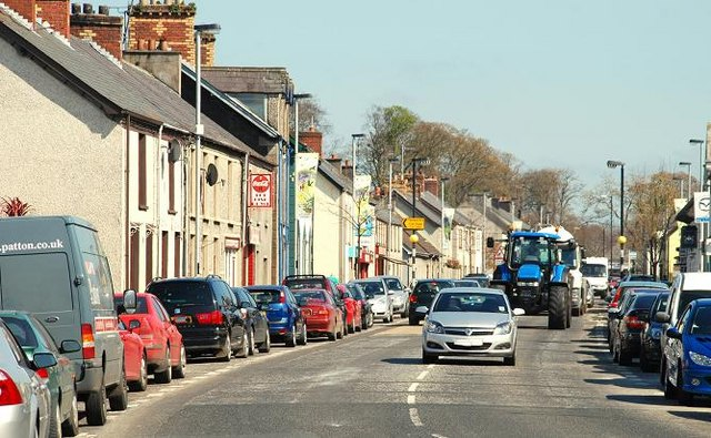 Main Street, Broughshane. Despite being so close to the much bigger Ballymena, Broughshane has retained its own identity and has a good range of local shops. It even has a library. The disadvantage is that the main street is permanently busy with traffic during working hours. See also 1598520.